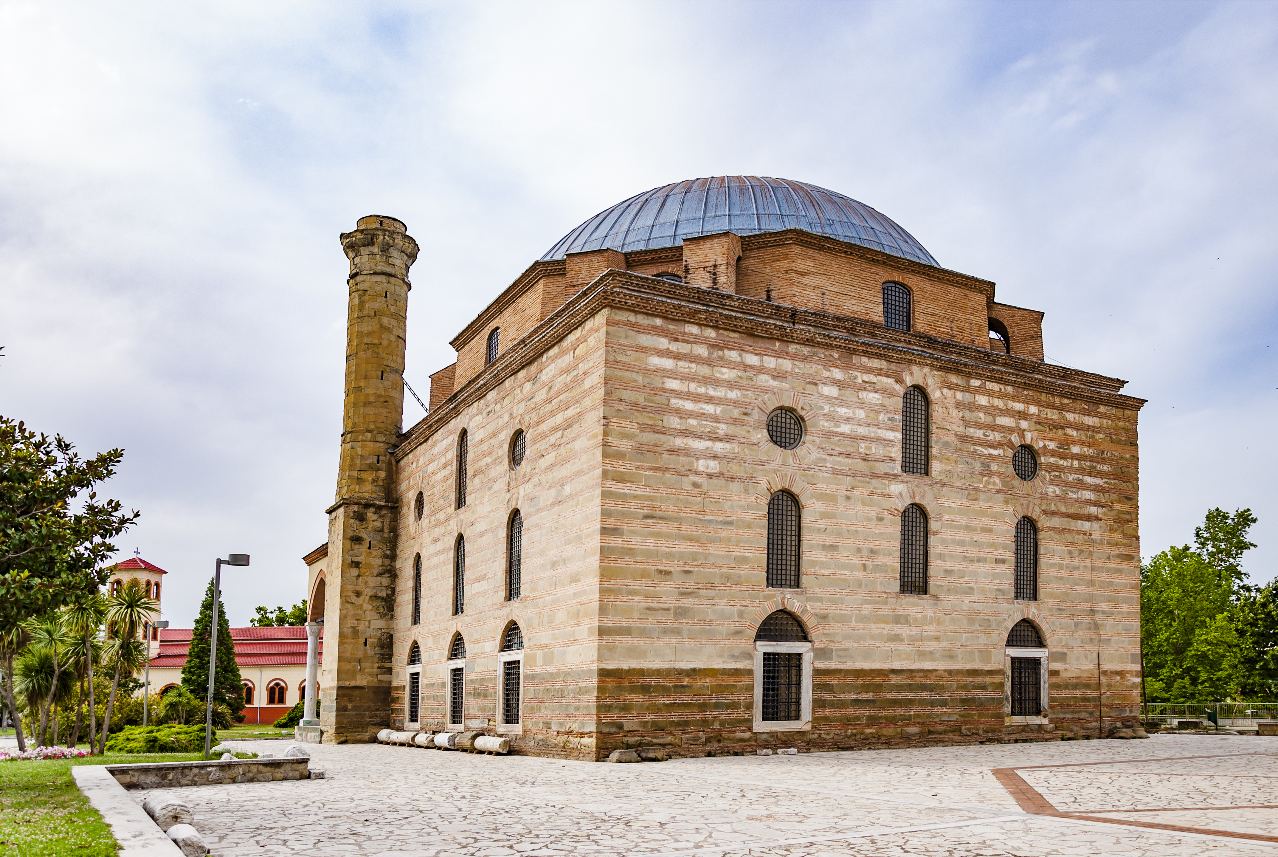 Kursum Mosque or Osman Shah Mosque in Trikala, Thessaly, Greece